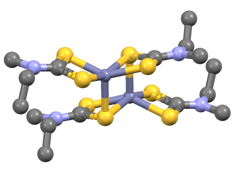 structure of [Zn(S2CNEtMe)2]2